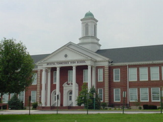 Front Shot Of The School